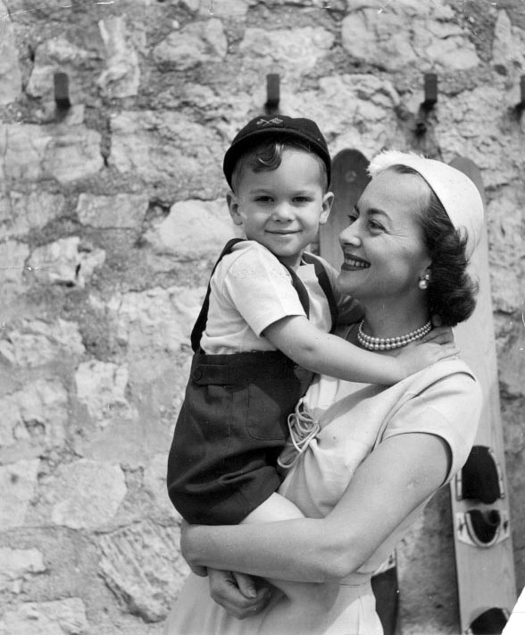 Olivia de Havilland with her son Benjamin, c. 1952